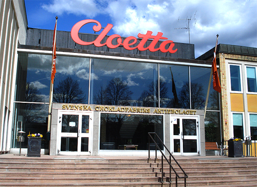 One of Cloettas factories (Ljungsbro, Sweden)